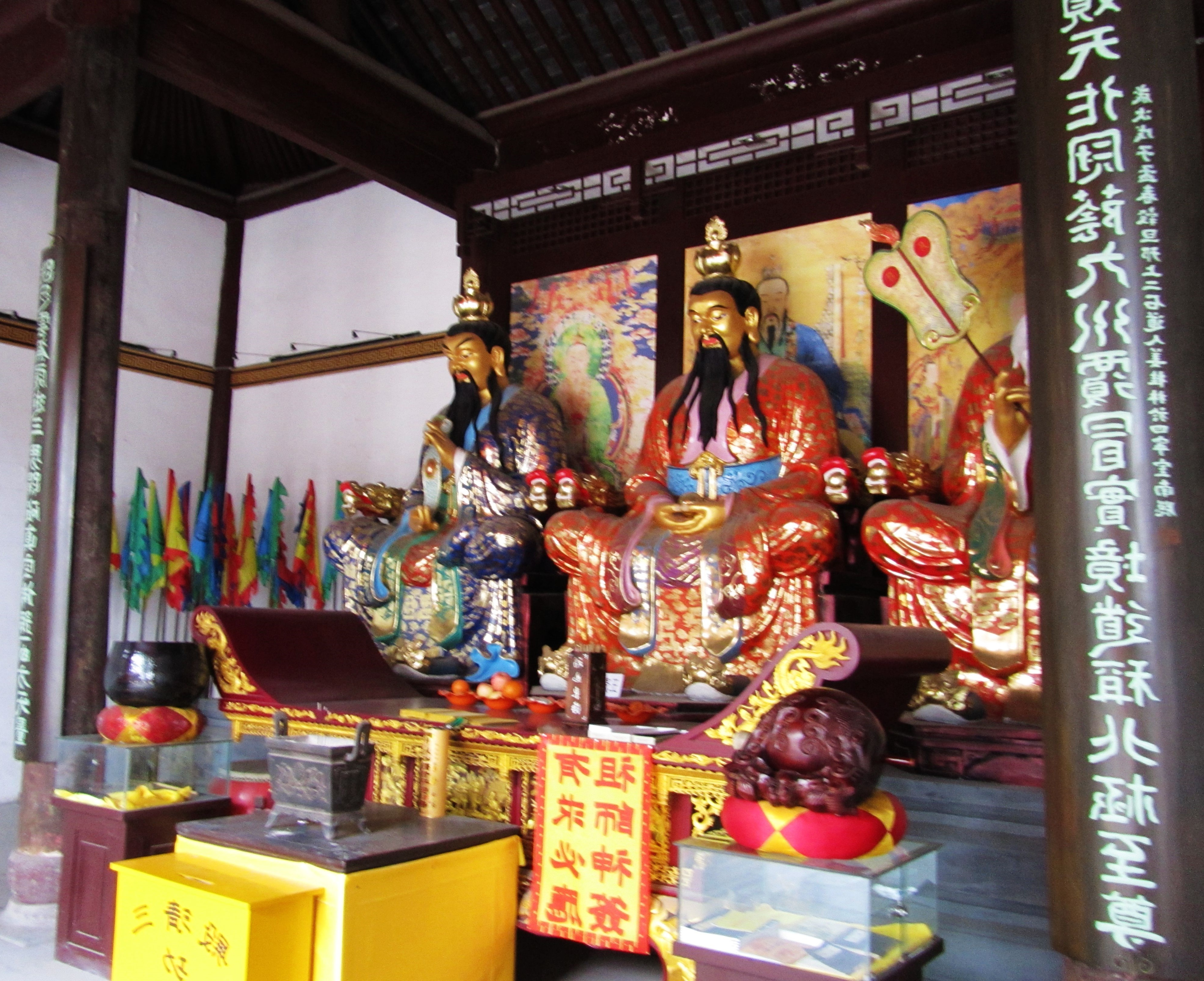 Altar of the Three Purities at the Wudang Taoist Temple in Yangzhou, Zhejiang. 扬州武当行宫，大殿内景。